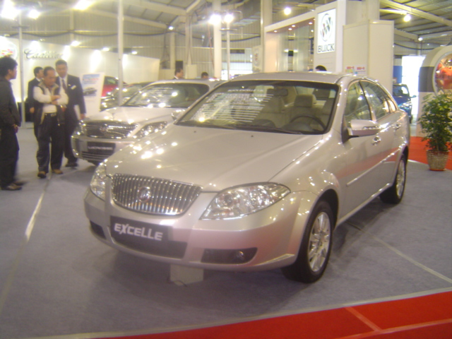 Buick Excelle in 2008 Taichung auto show